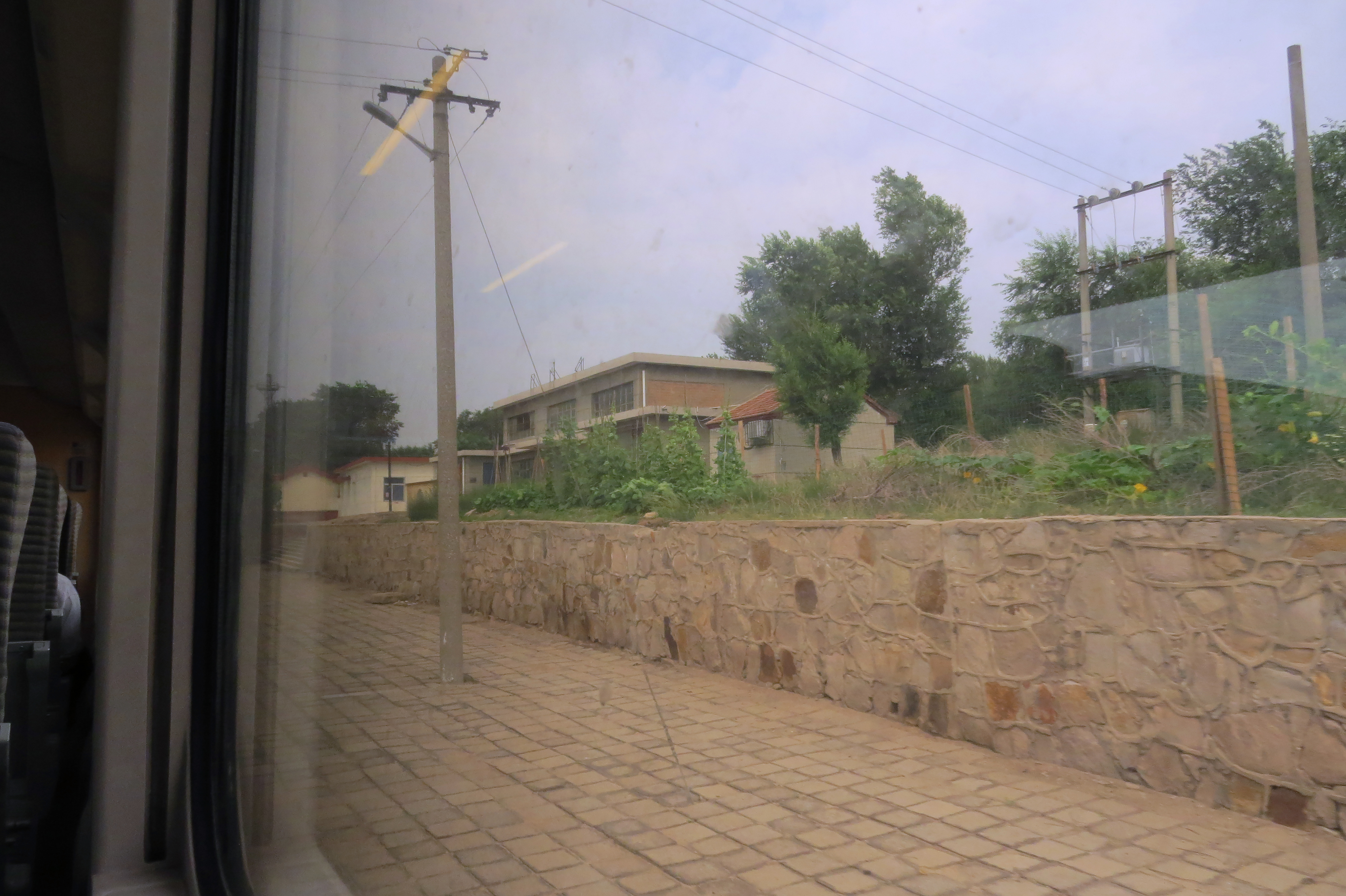 Taken from S287.